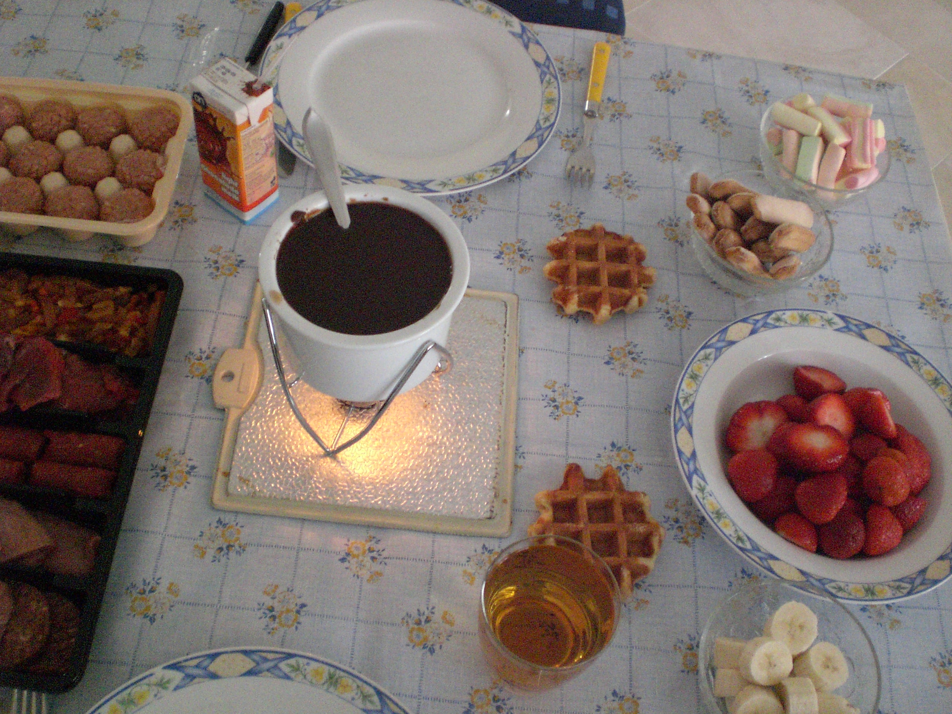 chocolate fondue